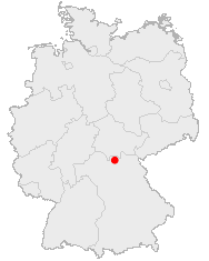 Location map of Coburg in Germany